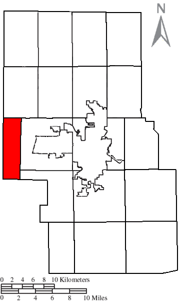 Made by the US Census and altered by myself to highlight the township